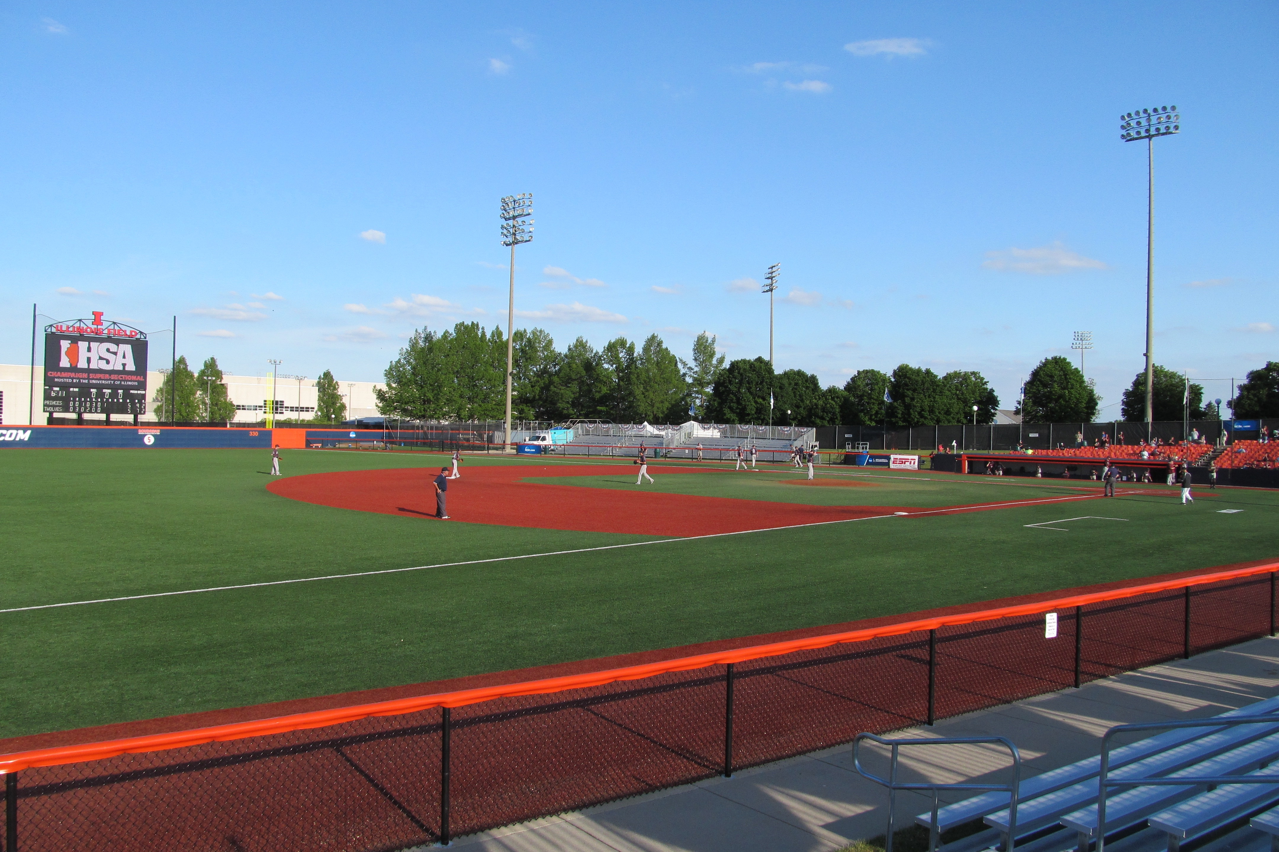 Illinois Field at the University of Illinois at Urbana-Champaign. Illinois High School Association Class 1A Boys Baseball game between Princeville High School and Okaw Valley High School.